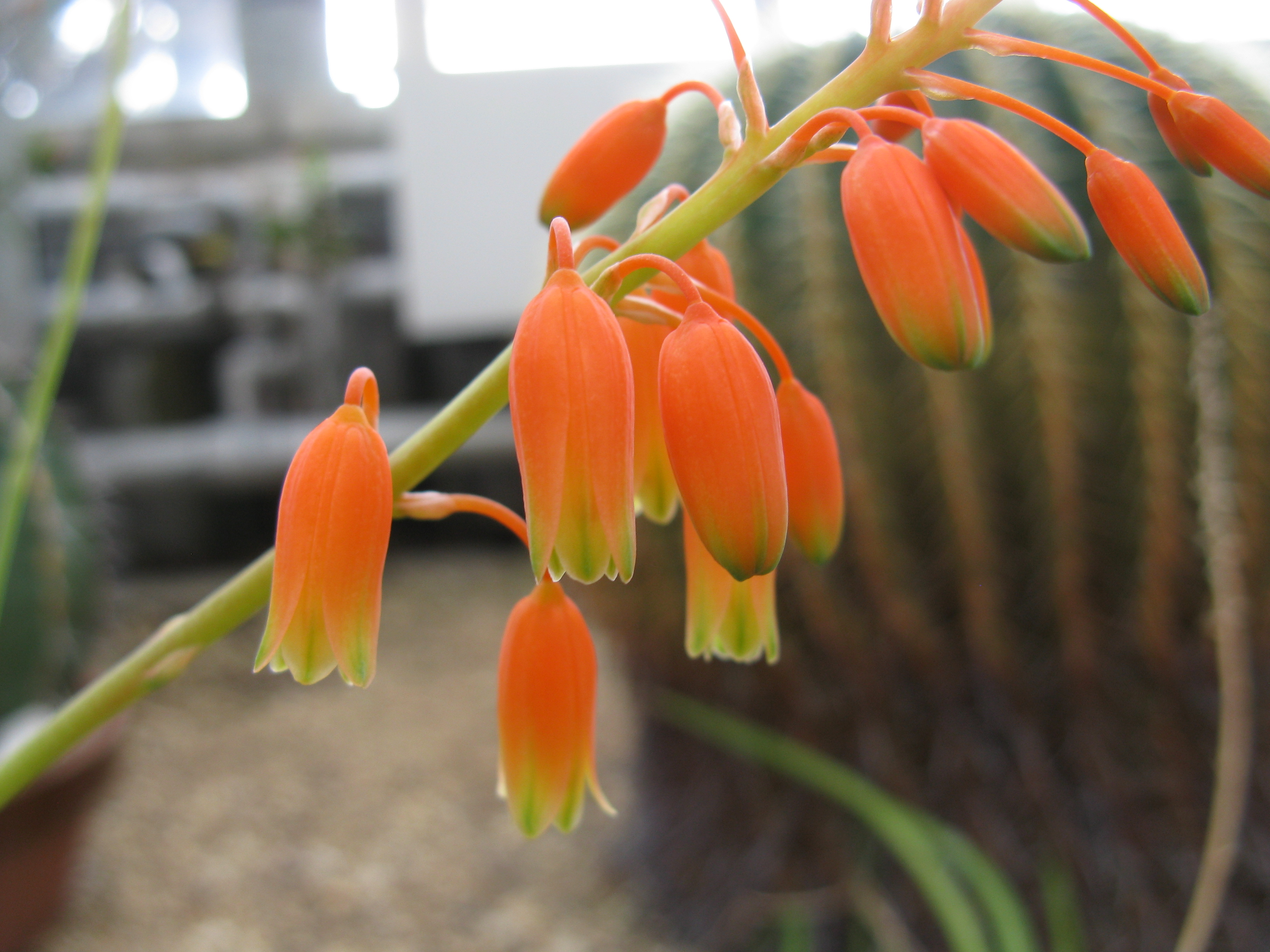 Scientific name Aloe ballii Place:Osaka Prefectural Flower Garden,Osaka,Japan